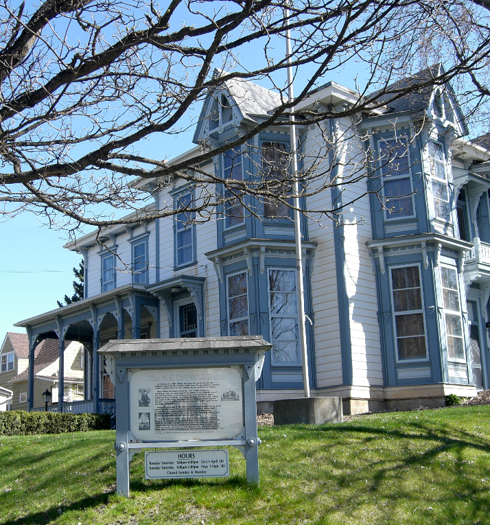 House built in 1886 for William J. McConnell in Moscow, Idaho. The house is on the National Register of Historic Places. It is open for tours by the Latah County Historical Society. Robbie Giles©